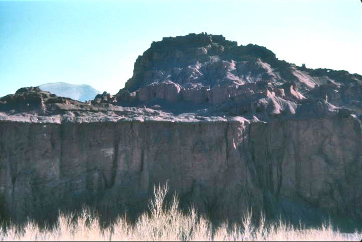 SHAHR-I-ZOHAK (RED CITY); FLOURISHING CITY IN 1222 WHEN GENGHIS KHAN CAME THROUGH. HIS GRANDSON WAS KILLED BY A BOWSHOT WHILE BESIEGING THIS FORT SO THE MONGOLS KILLED EVERY HUMAN BEING AND DESTROYED THE IRRIGATION SYSTEM. NO MAN HAS LIVED IN THE VALLEY SINCE. THE CITY STANDS ON A HIGH BLUFF OVERLOOKING THE BAMIYAN VALLEY. IT IS CALLED THE RED CITY BECAUSE OF THE COLOR DISPLAYED WHEN THE SUN SETS.